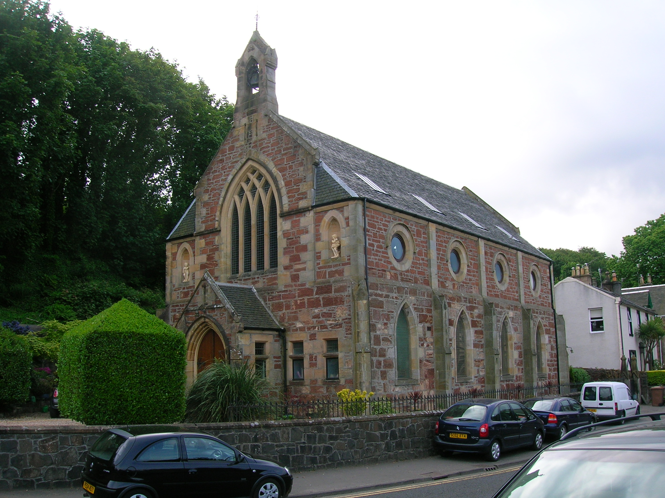 Fairlie. Old chapel. North Ayrshire. Scotland.